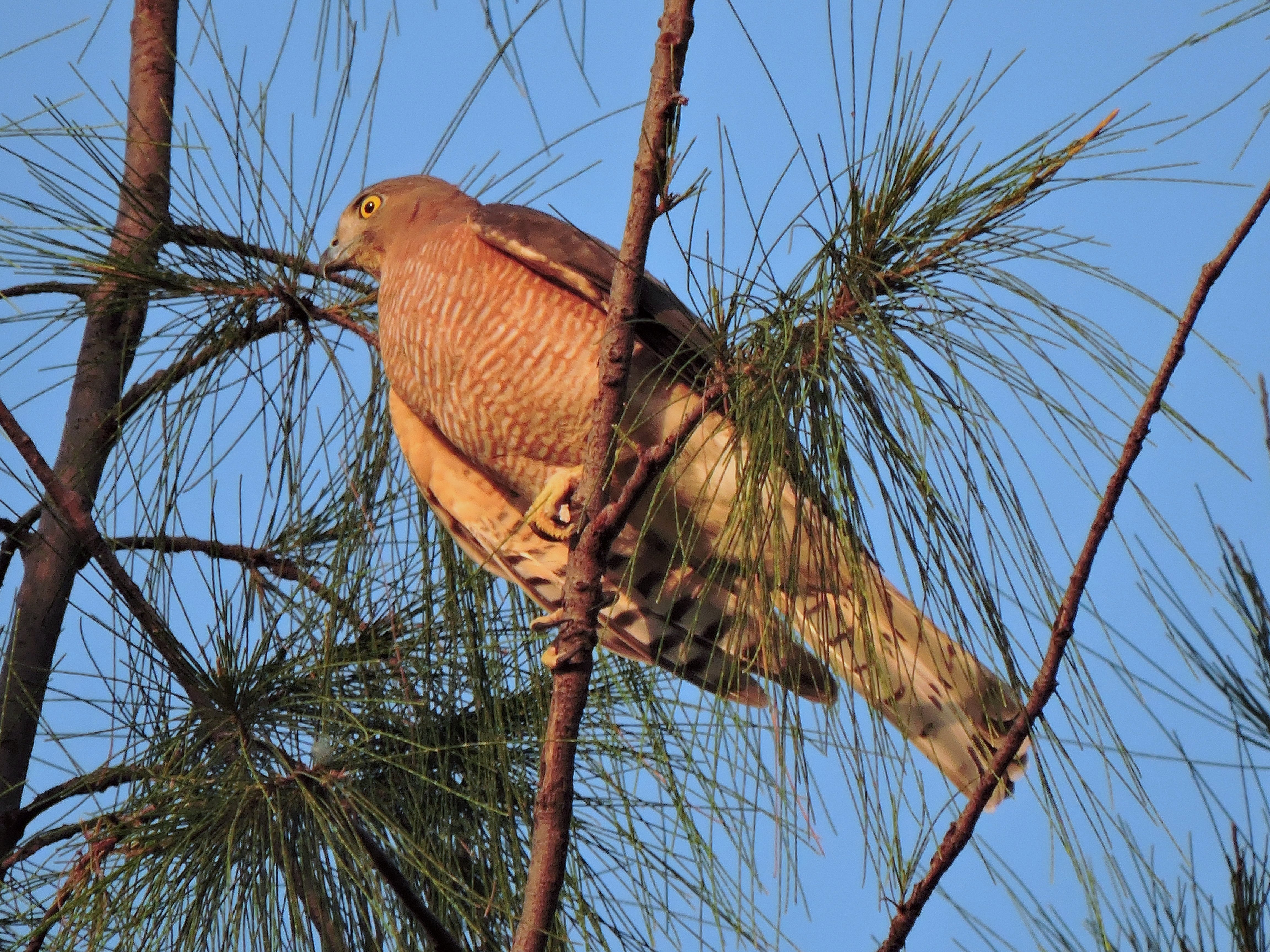 Shikra, City bird sanctuary, Chandigarh,India